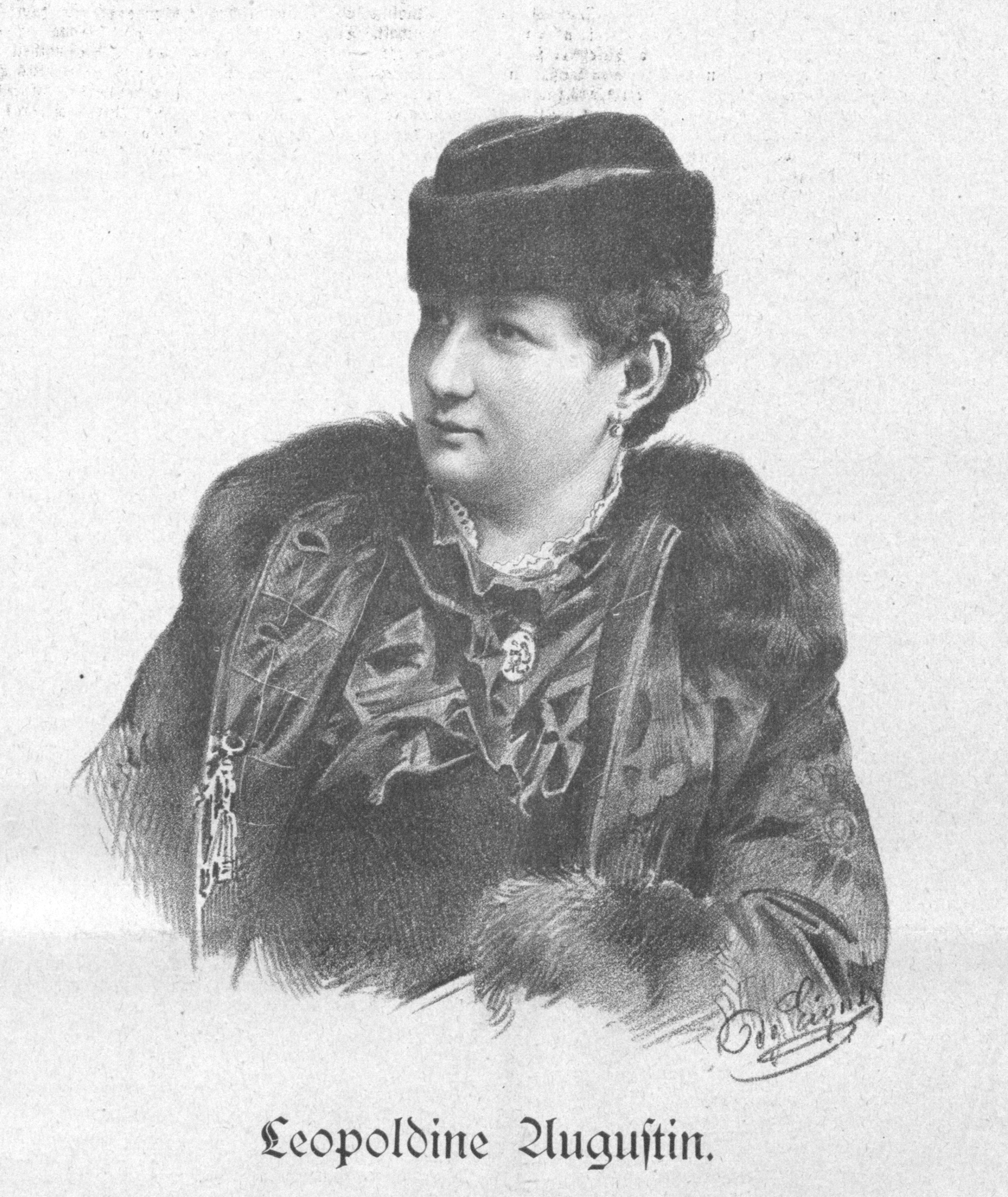 Portrait of Leopoldine Augustin (1863-1951), Austrian actress and singer.